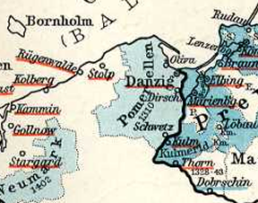 Pomerelia in the 14th, early 15th century